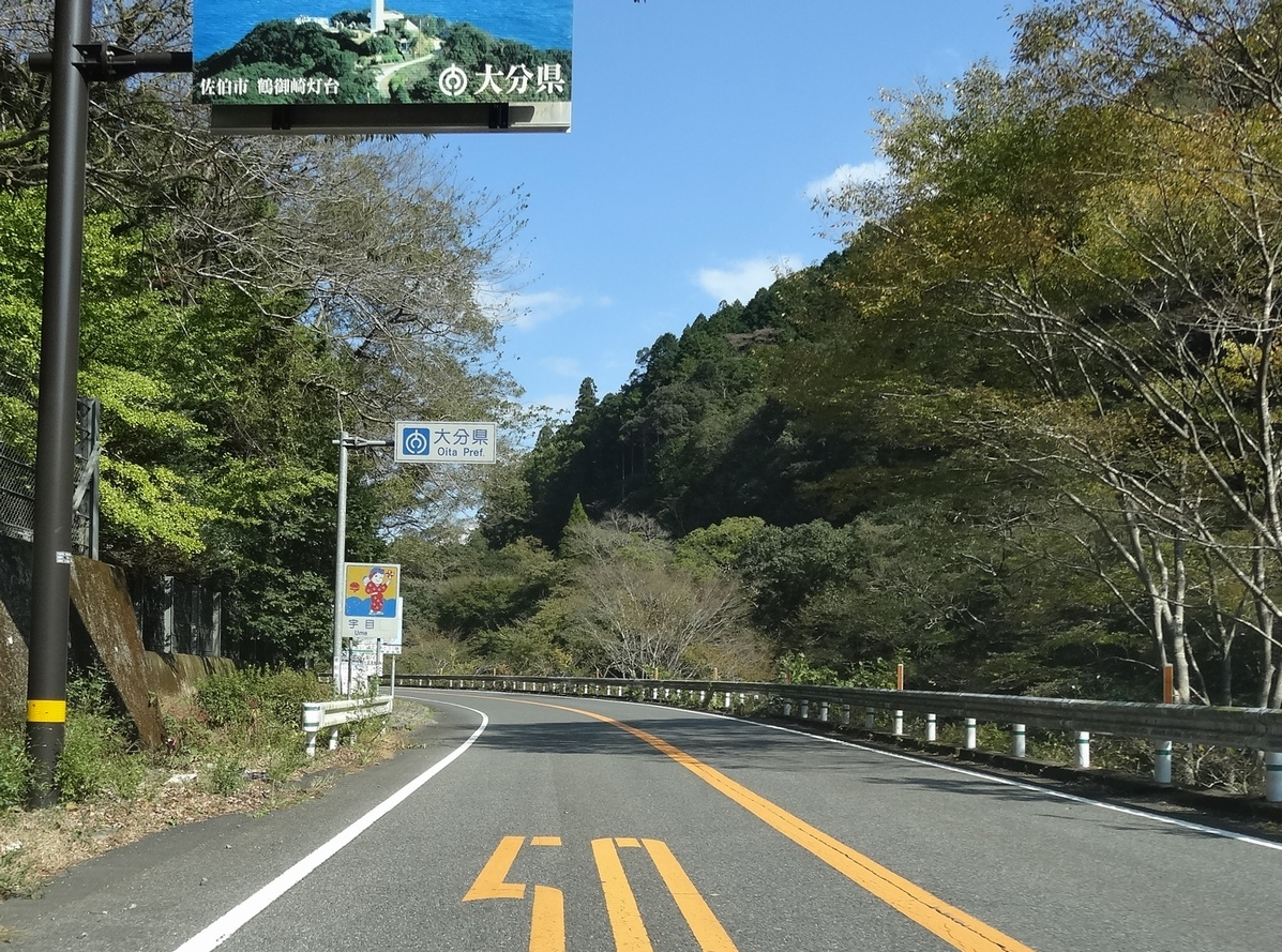 National Route 10 in Sotaro, Ume, Saiki City (Oita Prefecture, Japan)